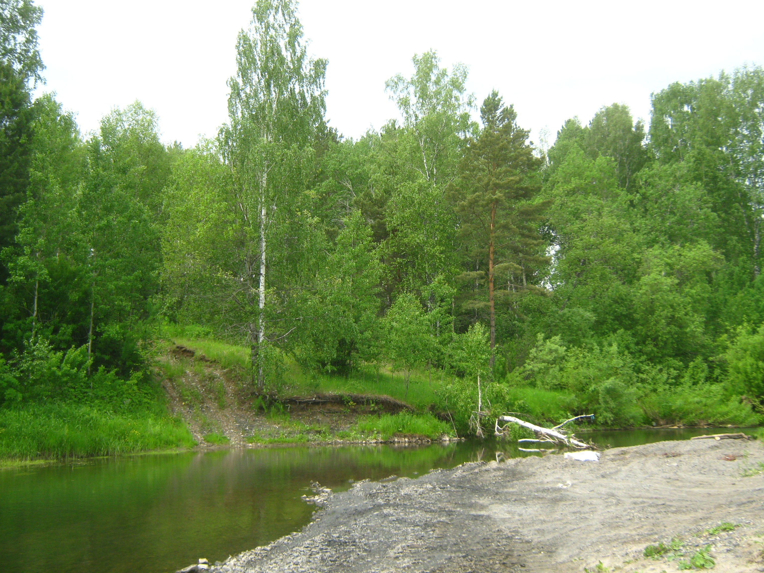 Nefyodovka River's entry to the Basandaika River in Tomsk Oblast, northern Central Asian Russia.